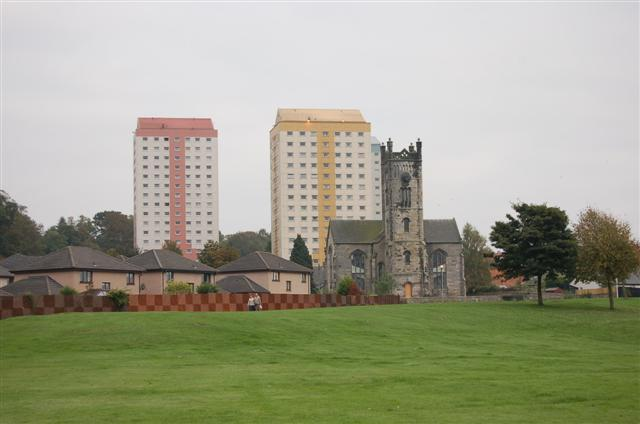 Church Kincardine Parish Church and high rise flats.